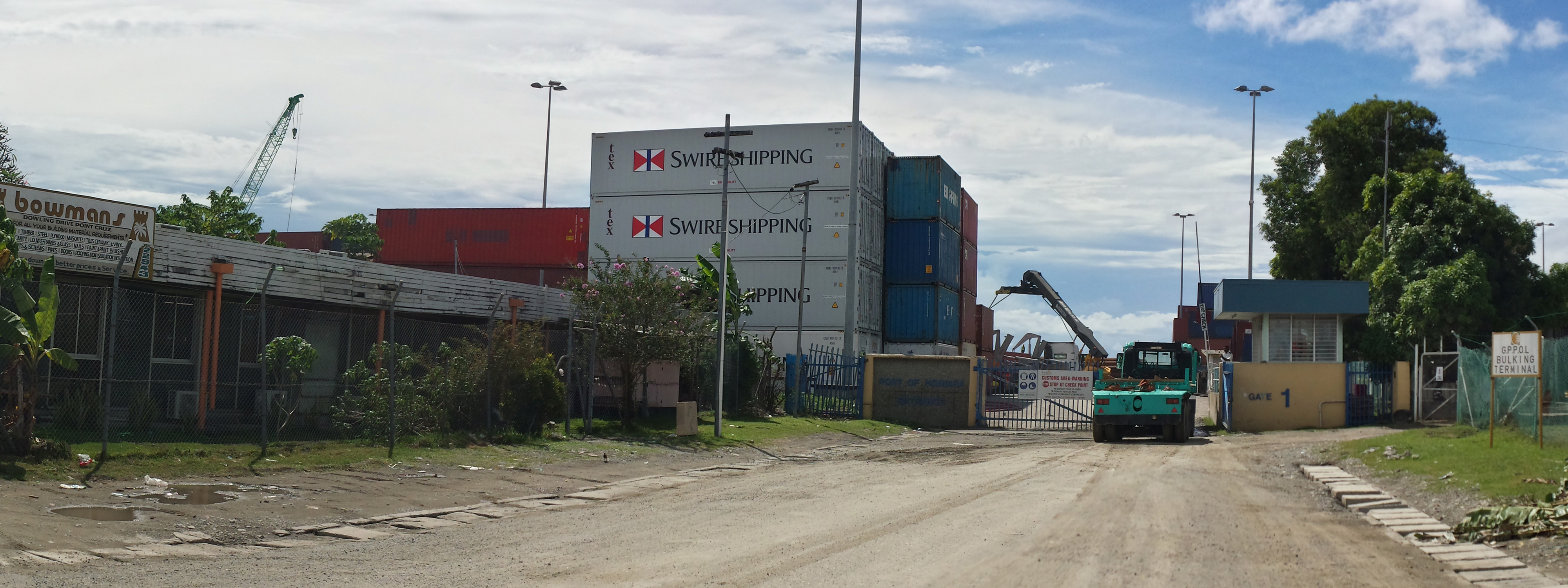 Honiara Port, restricted enterance